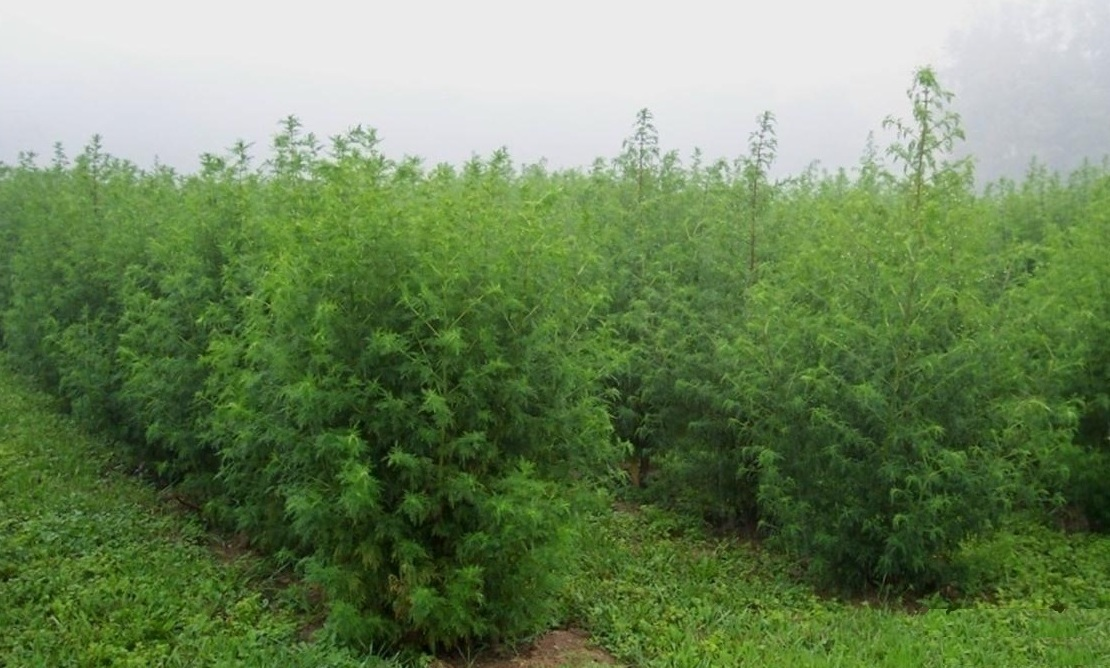 Artemisia annua crop in Beaver West Virginia